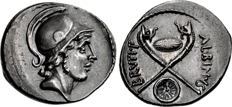 Moneyer issues of Imperatorial Rome. Albinus Bruti f. 48 BC. AR Denarius (18mm, 3.85 g, 11h). Rome mint. Head of young Mars, with slight beard, wearing crested helmet / Two carnyces (Gallic trumpets) in saltire; oval shield above; round shield below; ALBINVS downwards to right, BRVTI • F upwards to left. Crawford 450/1a; CRI 25; Sydenham 941; Postumia 11; Kestner 3551; BMCRR Rome 3962-3; RBW 1576. Near EF, deeply toned, hint of weak strike at periphery of reverse. From the Archer M. Huntington Collection, ANS 1001.1.10607.